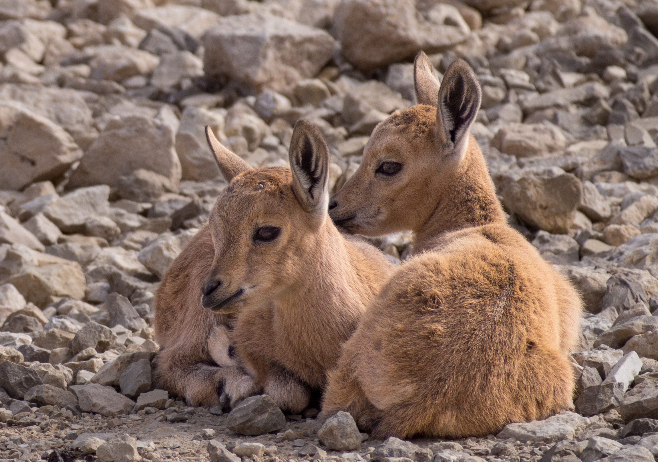 Two Nubian ibex kids (Capra nubiana) in Mitzpe Ramon, Israel.